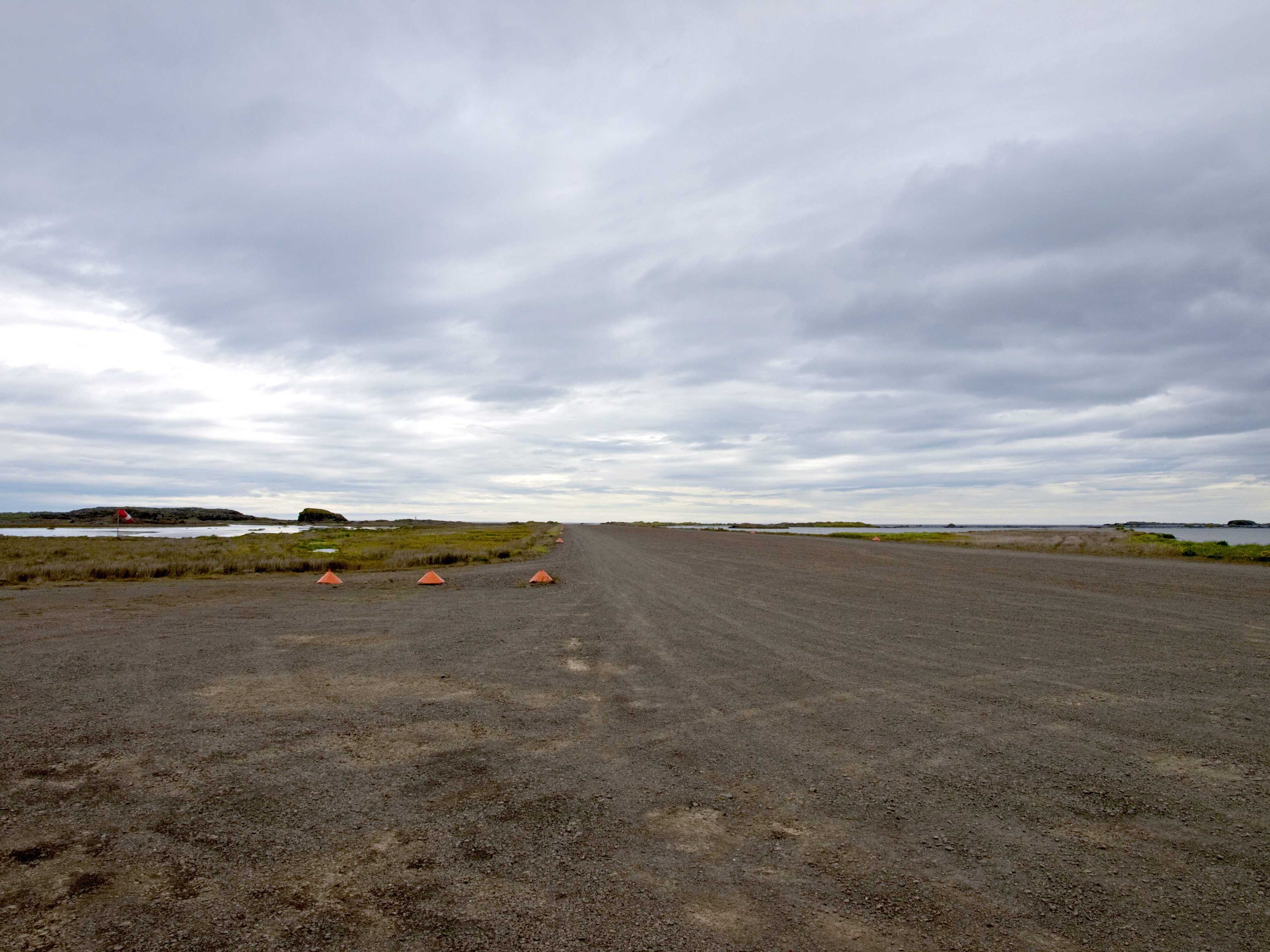 Djupivogur Airport, the landing strip